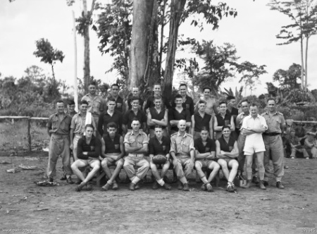 One of the Australian personnel teams (22nd works company) credited with introducing the sport to New Guinea. Lae, New Guinea. 1944-10-01. Members of the Australian Rules Football team of the 22nd Works Company. Identified personnel are:- V143061 Private W.M. Manchester (1); T102483 Private V.P. Maynard (2); Q24729 Sergeant S.S. Fawcett (3); Vx147884 Private F.H. Eddy (4); V148376 Lieutenant J.P. Mcmullan, Umpire (5); Vx126809 Private G.A. Grover (6); Vx261044 Private J.T.P. Cook (7); Vx124391 Private A.J.G. Hamilton (8); V58434 Private J.T. Anderson (9); V225979 Private S. Heenan (10); Vx126422 Private J.S. Clark (11); Vx65591 Private H.E. Read (12); V170589 Private J.W. Brown (13); Vx149688 Private E.L. Loats (14); V504119 Private R.A. O'brien (15); Vx104118 Major R.C. Upson (17); Vx123430 Private J. Goggin (18); V326456 Private A.B. Gale (19); V167421 Private F.M. Ito (20); Vx126225 Private N.L. Andrews (21); V195126 Private R.A. Allen (22); V175880 Private J.W. Porter (23); V257447 Private R.A. Barnard (24); V502421 Private J.E. Greenwood (25); V145757 Private A.O. Townsend (26).